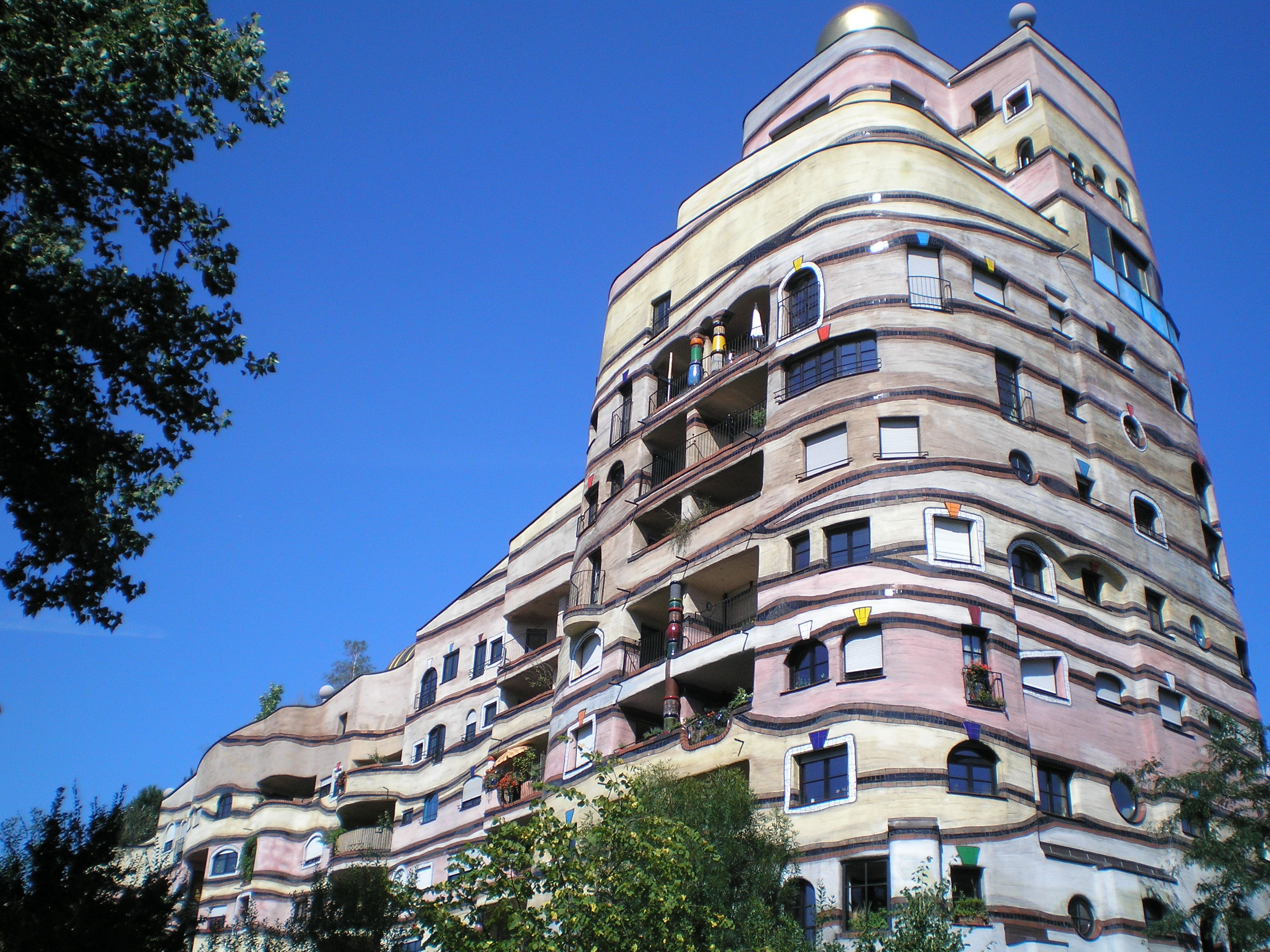 Waldspirale Darmstadt